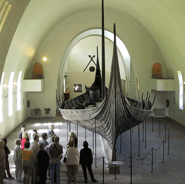 The Oseberg longship (From the Viking Ship Museum, Oslo, Norway)